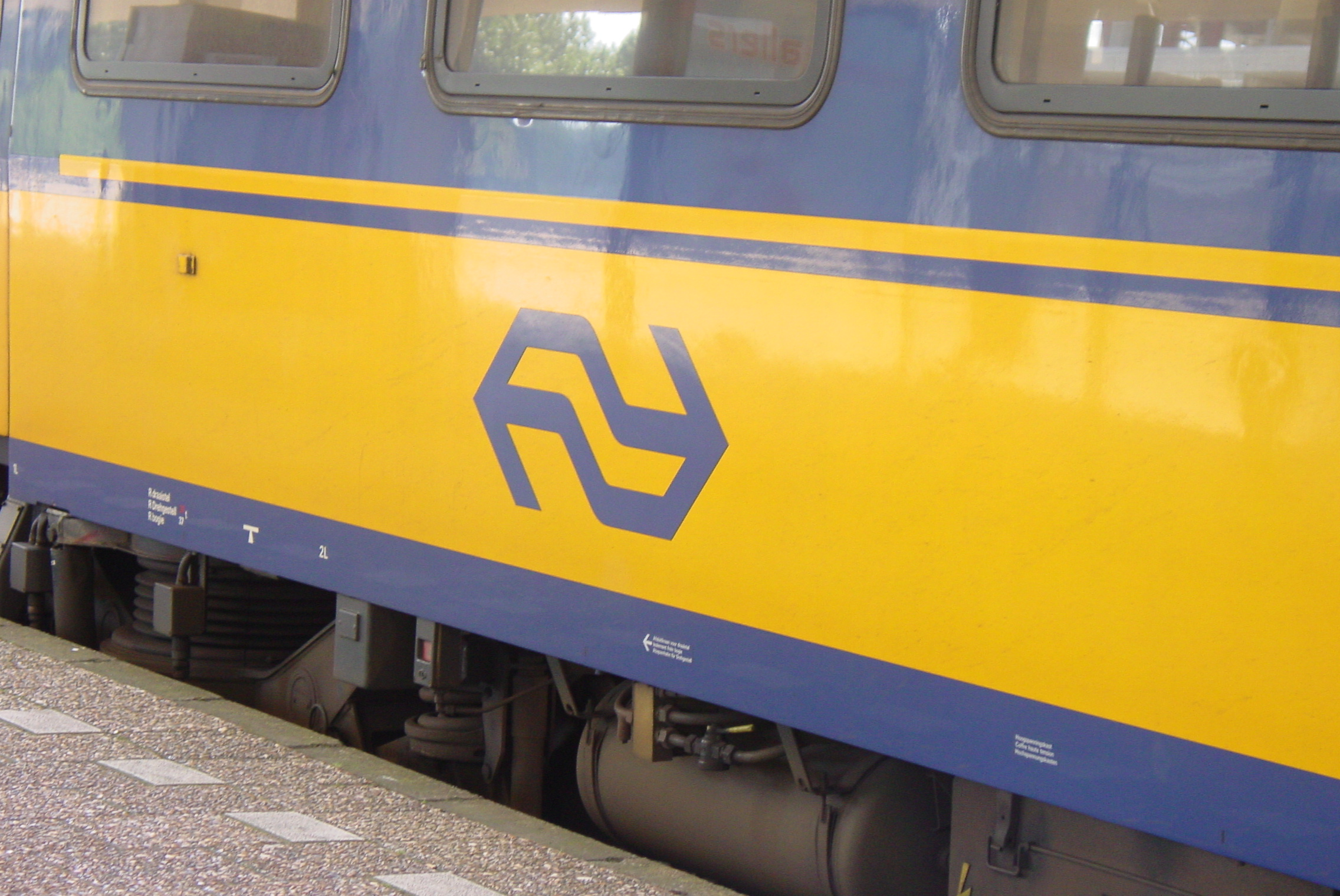 Dutch Railways logo on a train at Amsterdam Zuid